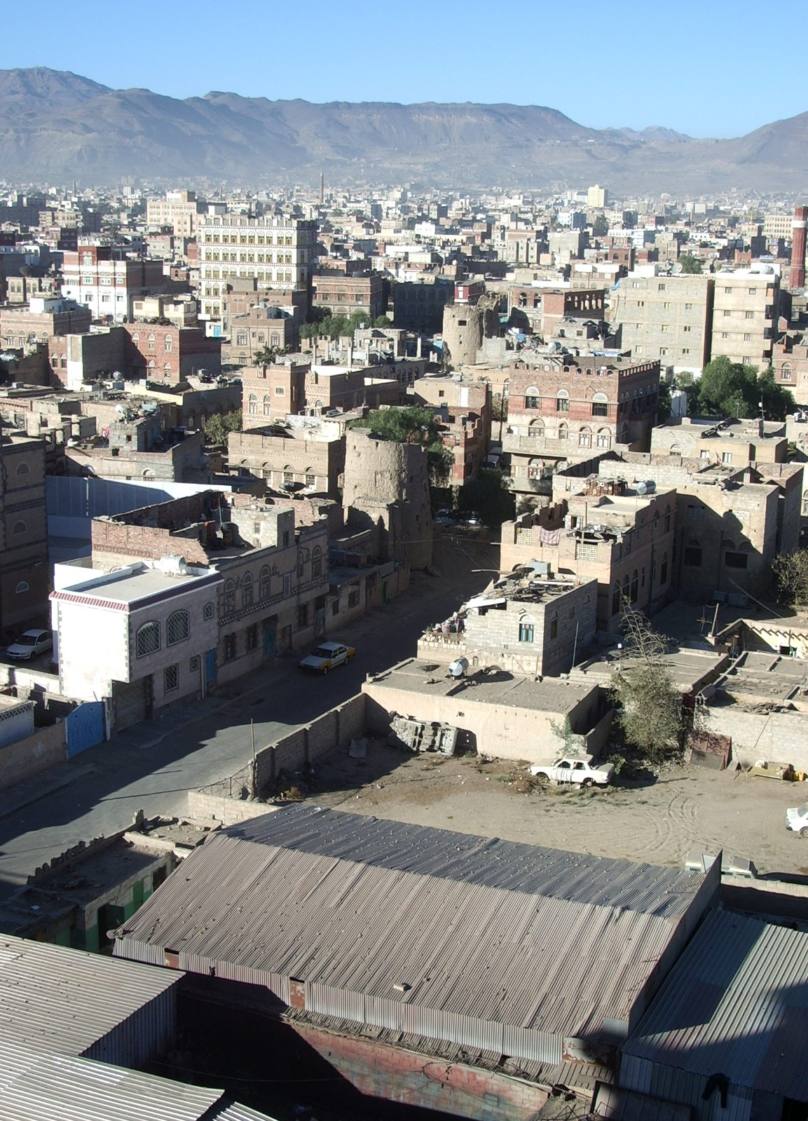 Yemen - Clay houses in Sanaa 2